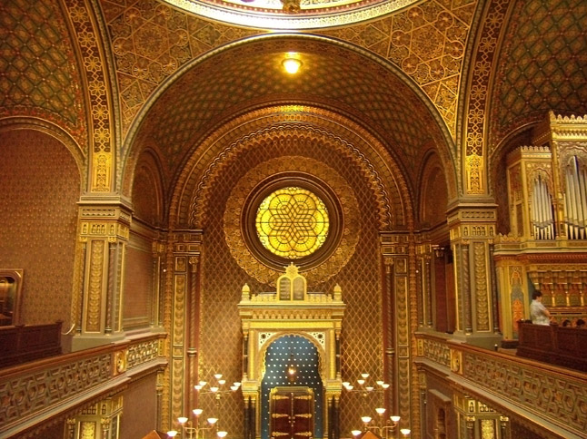 Spanish synagogue in Prague